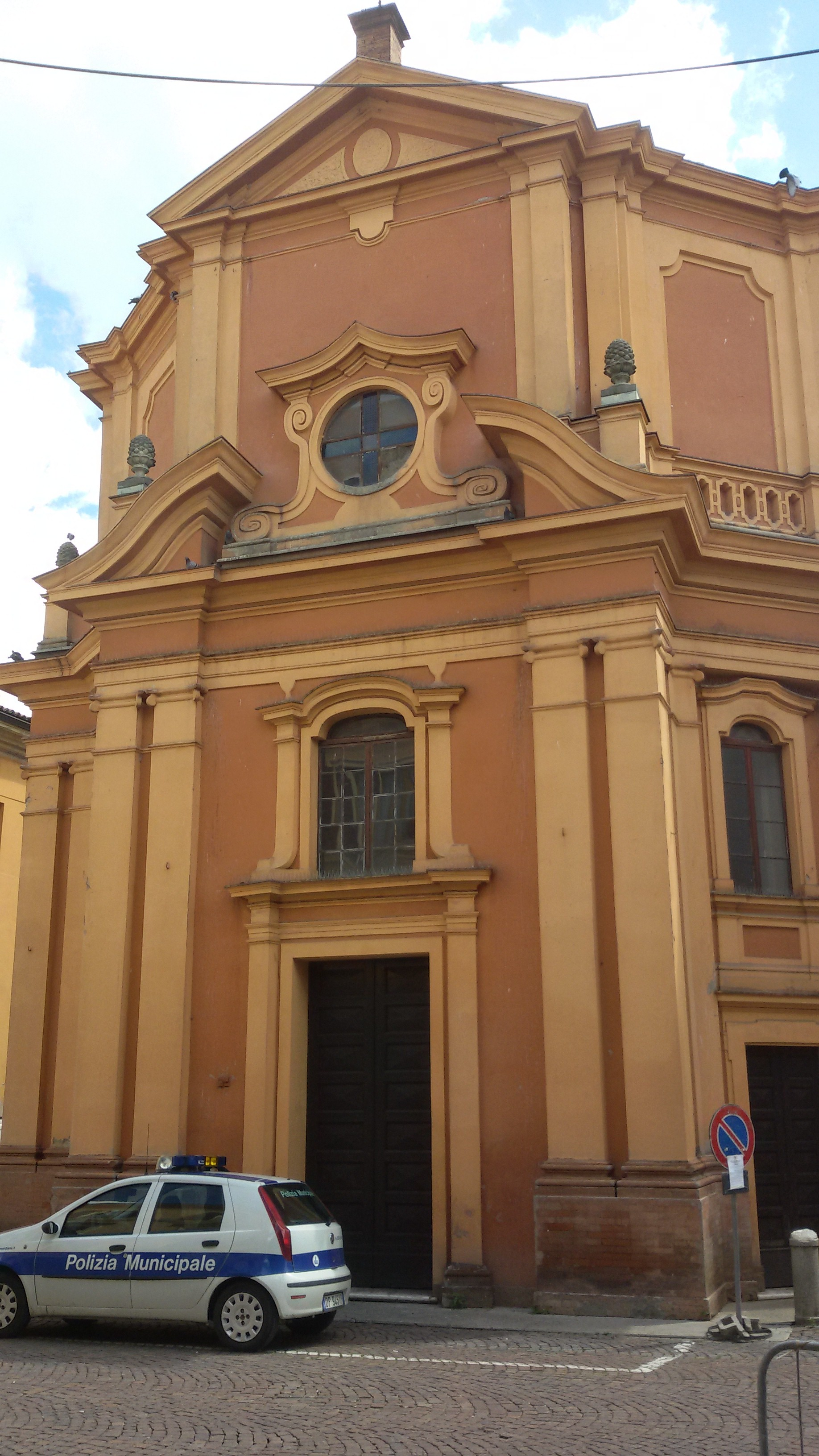 San Luigi CHurch